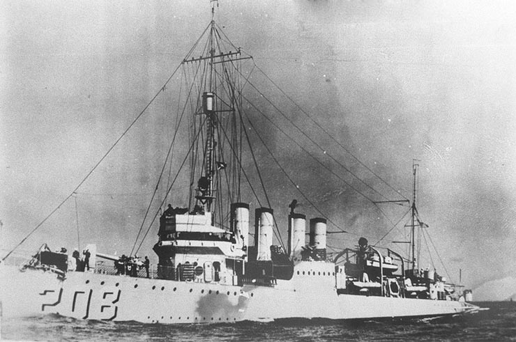 The U.S. Navy destroyer USS Hovey (DD-208) underway.